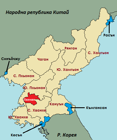 Provinces of the DPRK